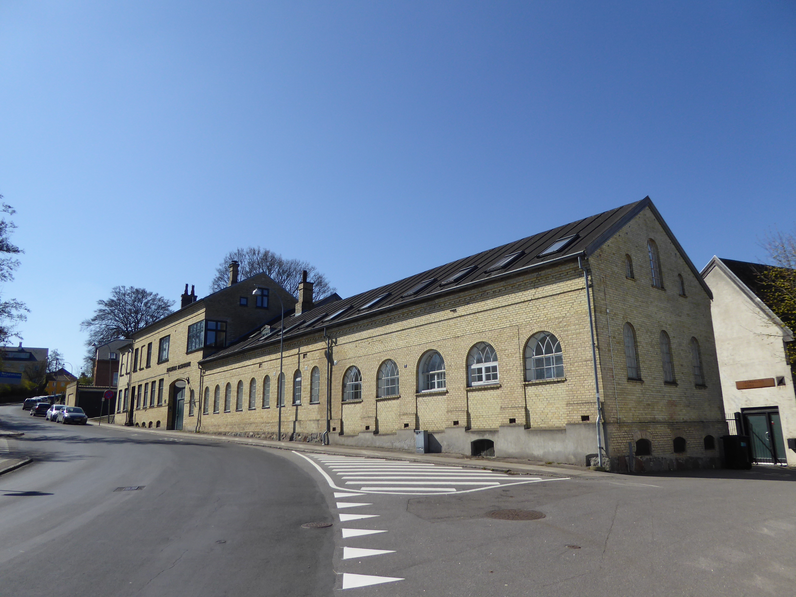 The former factory Maglekilde Maskinfabrik at Maglekildevej in Roskilde in Denmark.